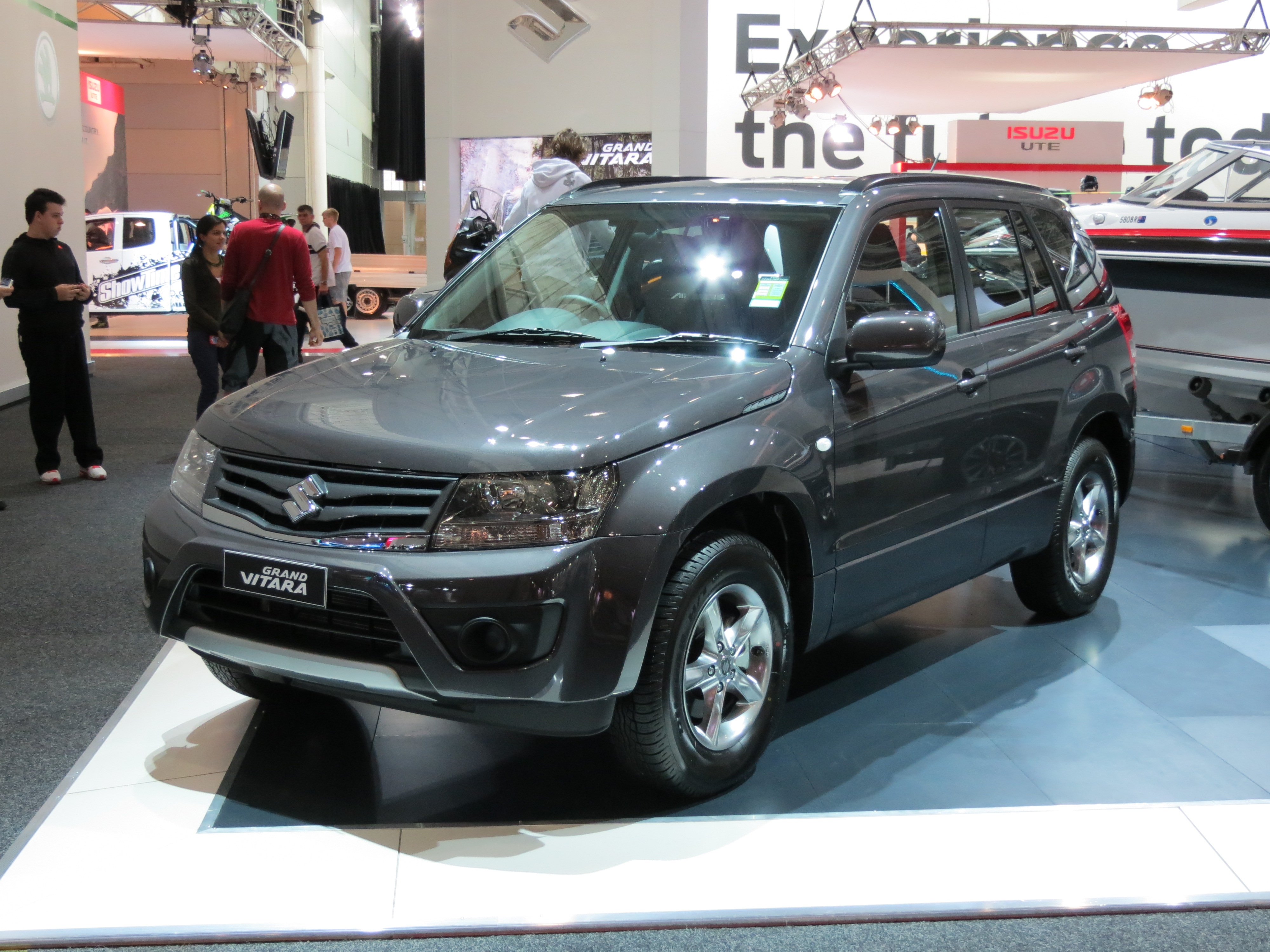 2012 Suzuki Grand Vitara (JB MY13) Urban 5-door wagon. Photographed at the 2012 Australian International Motor Show, Sydney, New South Wales, Australia.